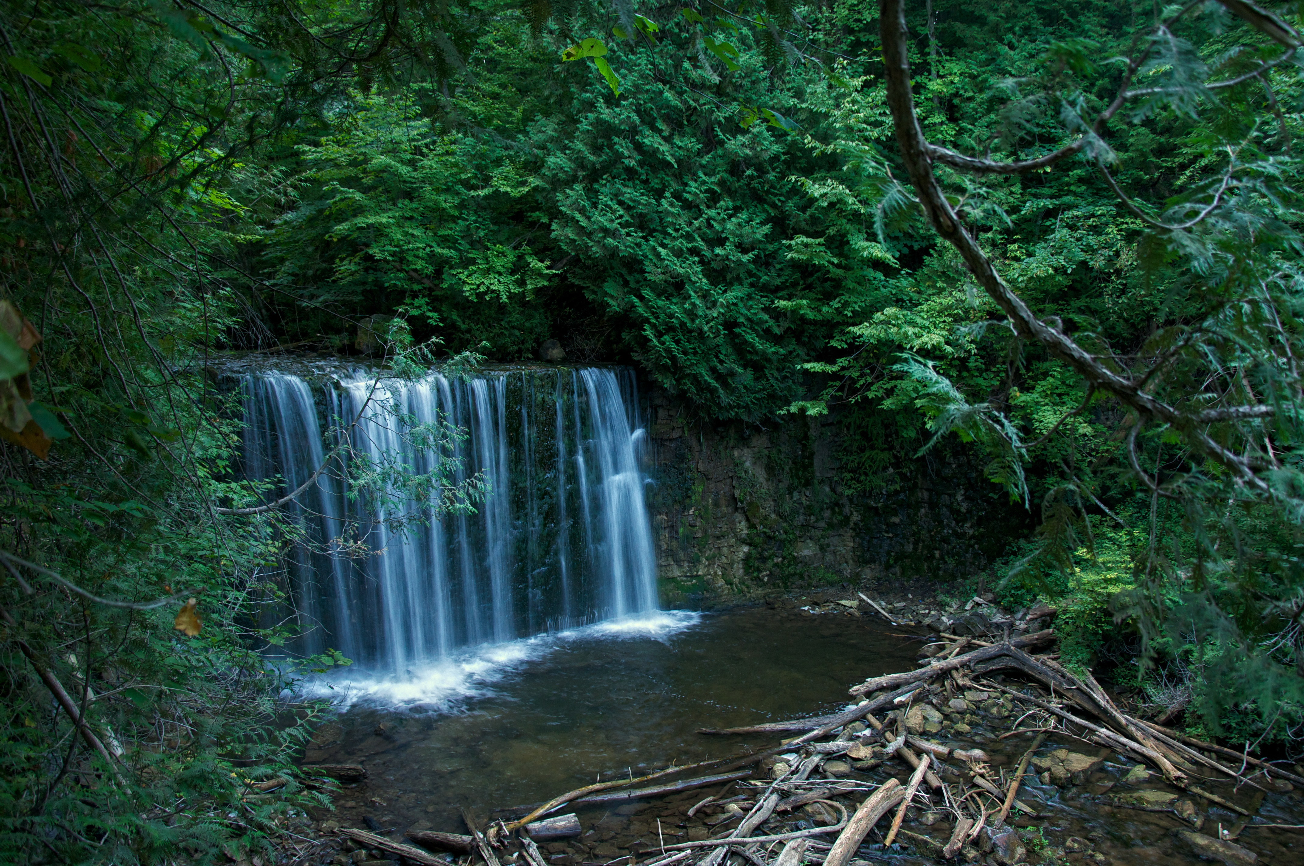 The Boyne River descending part of the Niagara Escarpment over Hoggs Falls